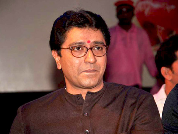 Raj Thackeray at the MNS Koli Festival